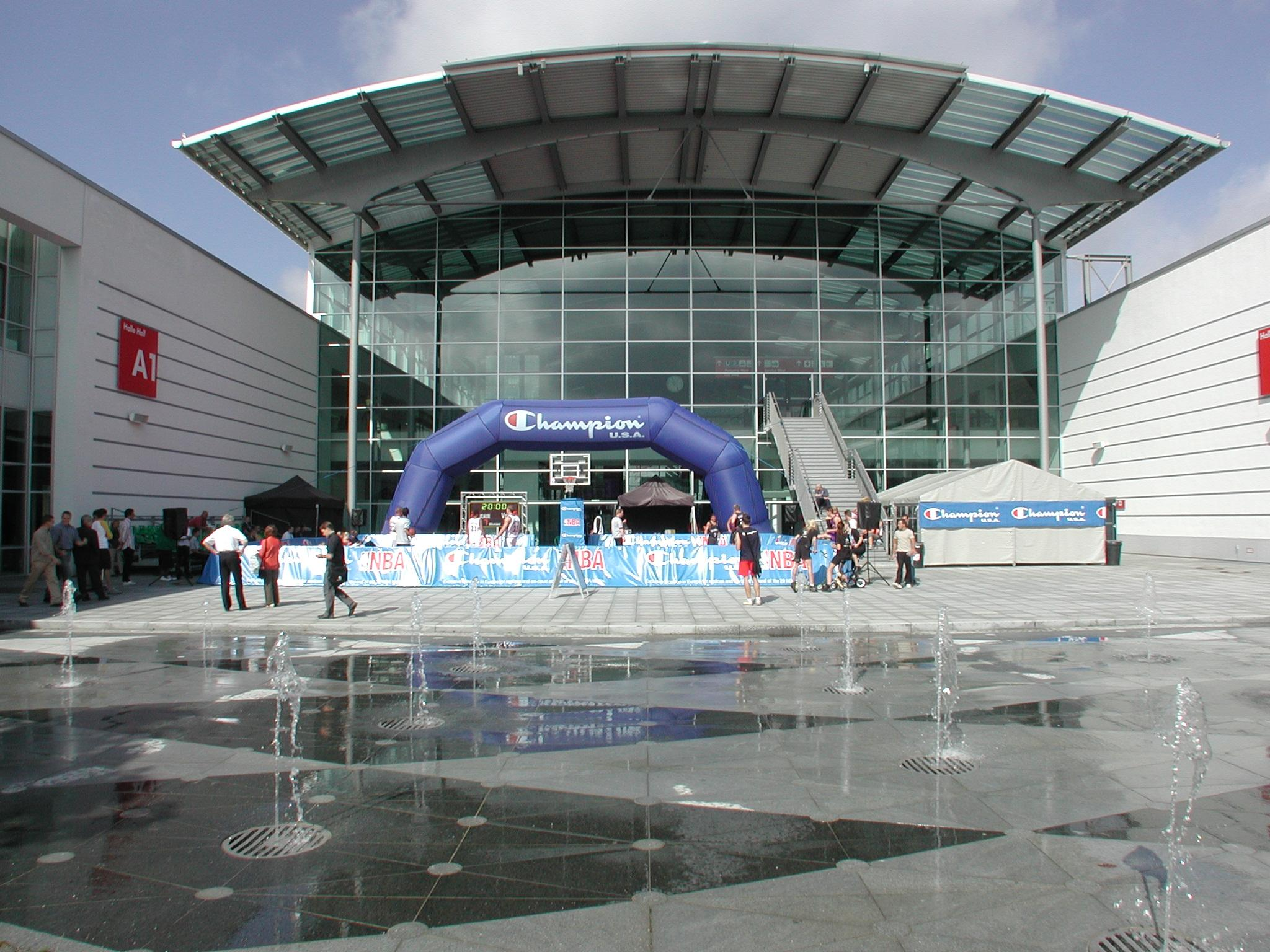 the Munich trade-fair during the ISPO summer 2002